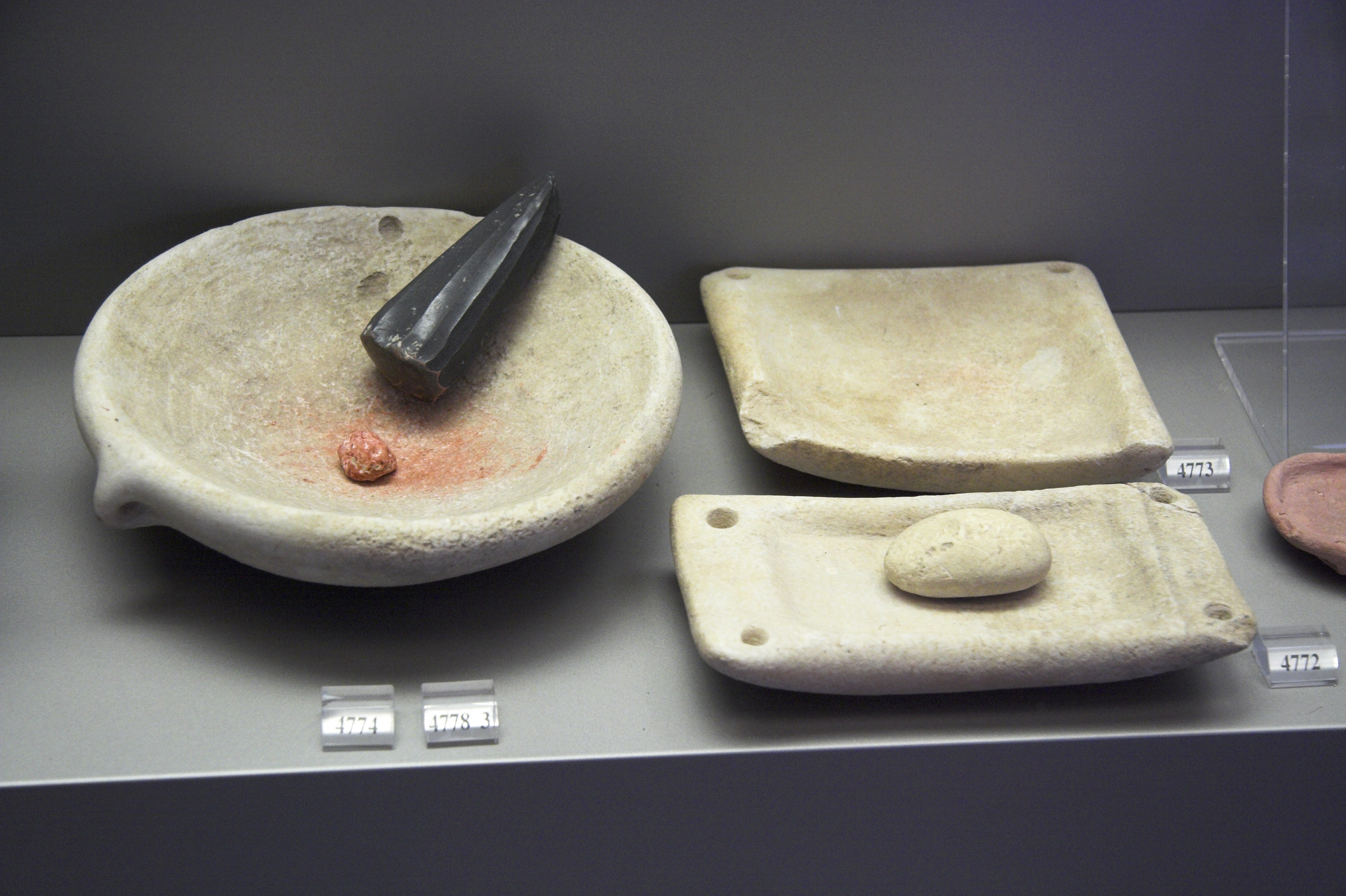 Marble bowls for grinding paint pigments and obsidian thumper. Paros, culture Grotta-Pelos, EC I, 3200 to 2800 BC. National Archaeological Museum of Athens N4778.